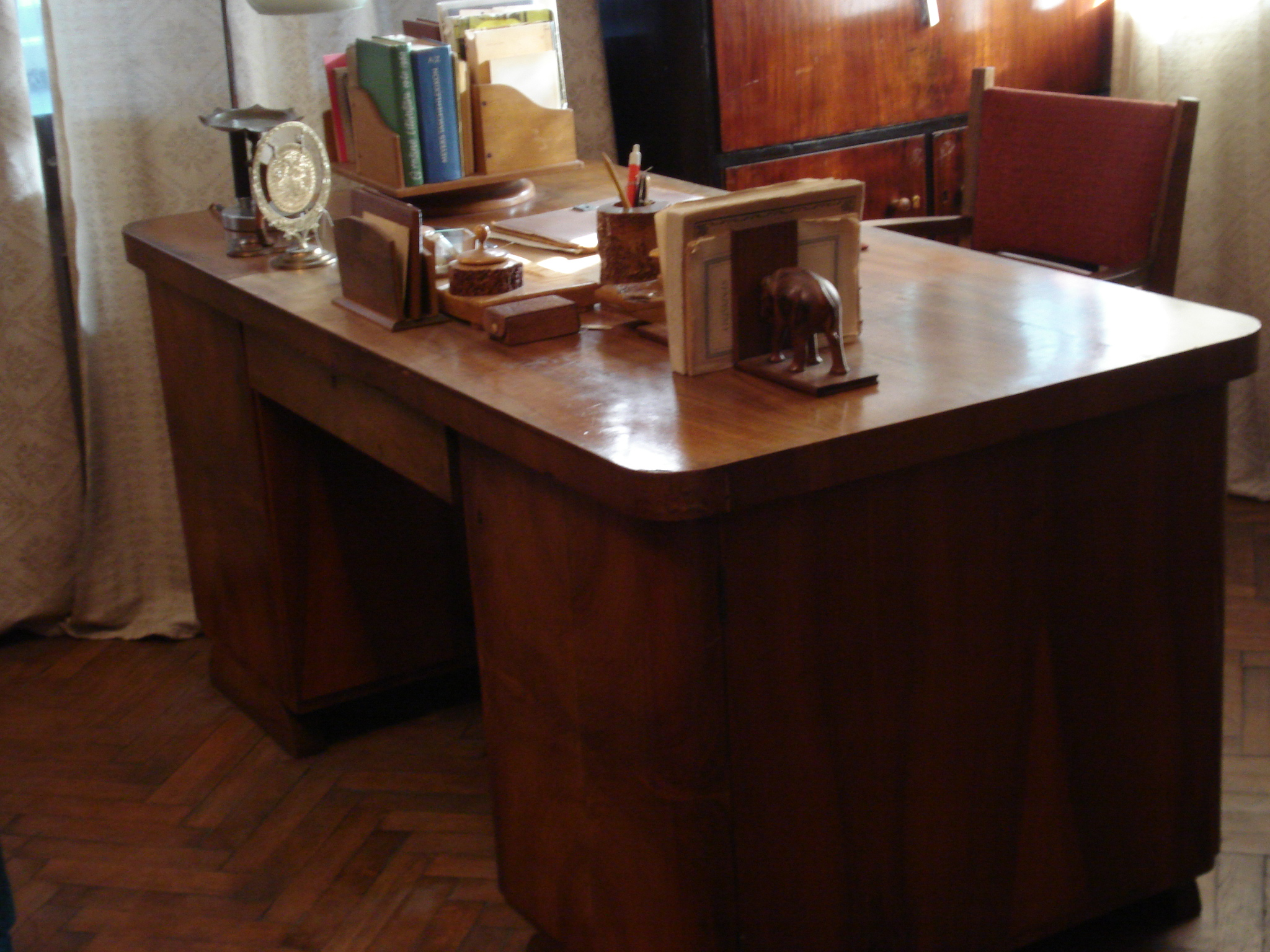 Memorial Cabinet of Lithuanian writer Antanas Venclova. The exposition in the house-museum of Venclova Family in Vilnius. Pamenkalnio g. 34.